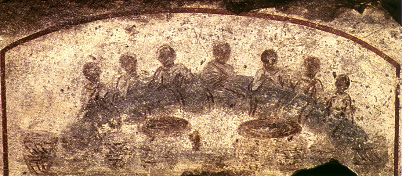 Painting of a feast / Early Christian catacomb of San Callisto (Saint Calixte Catacomb) / 3rd century / Paleochristian art.